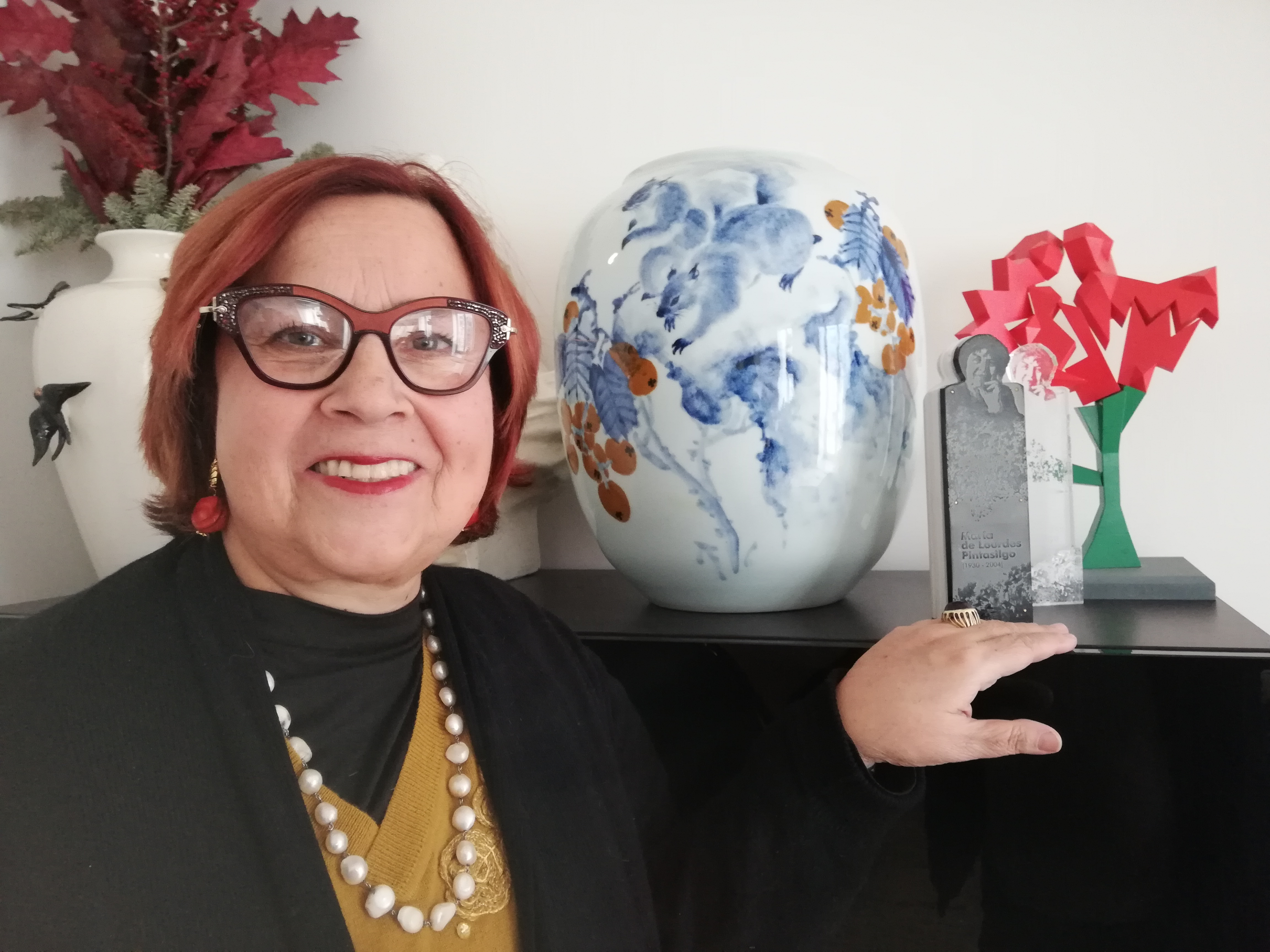 Picture of Margarida Martins, Presidente of the parish of Arroios in Lisbon, Portugal. The photo was taken at her office in the headquarters of the "Junta de Freguesia" on the 29th of January 2020.